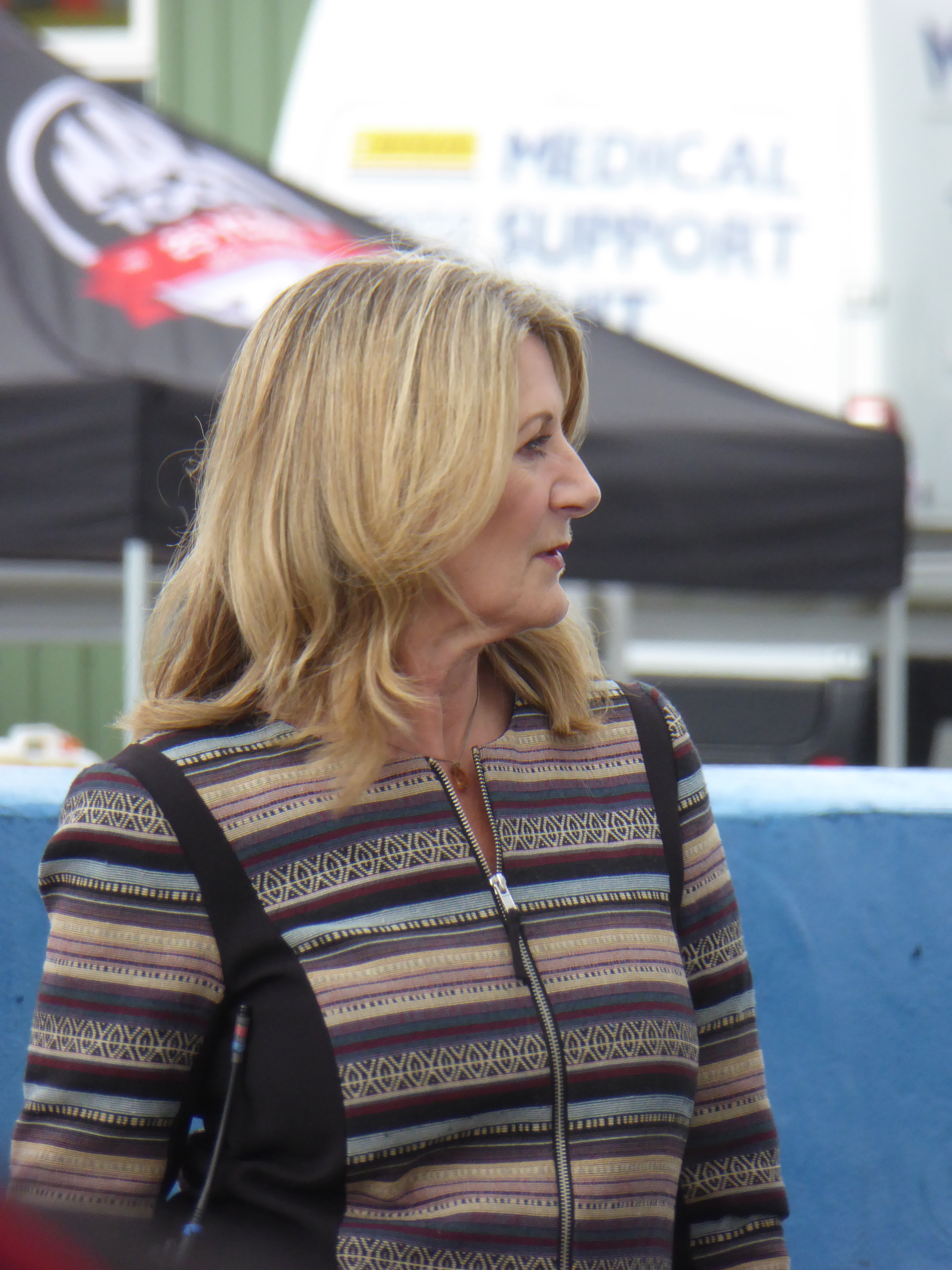 Louise Goodman (ITV Sport), at the Knockhill round of the 2017 British Touring Car Championship.